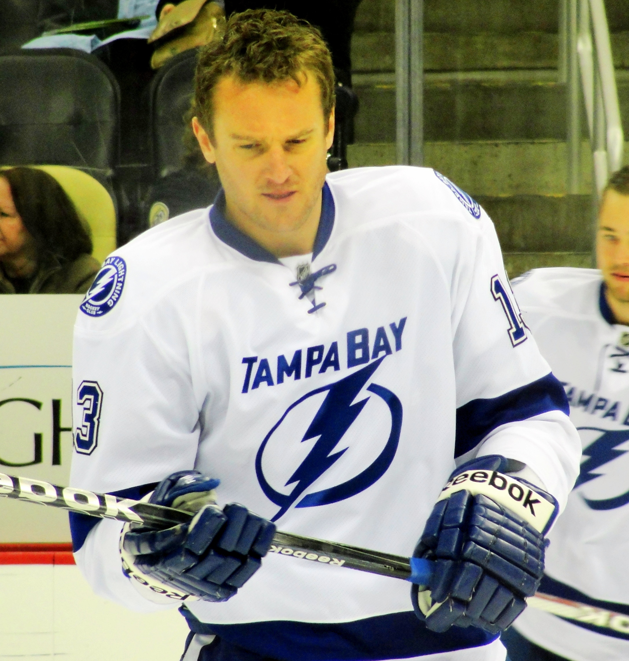 Pavel Kubina of the Tampa Bay Lightning during a February 12, 2012 game against the Pittsburgh Penguins at Consol Energy Center in Pittsburgh, PA.